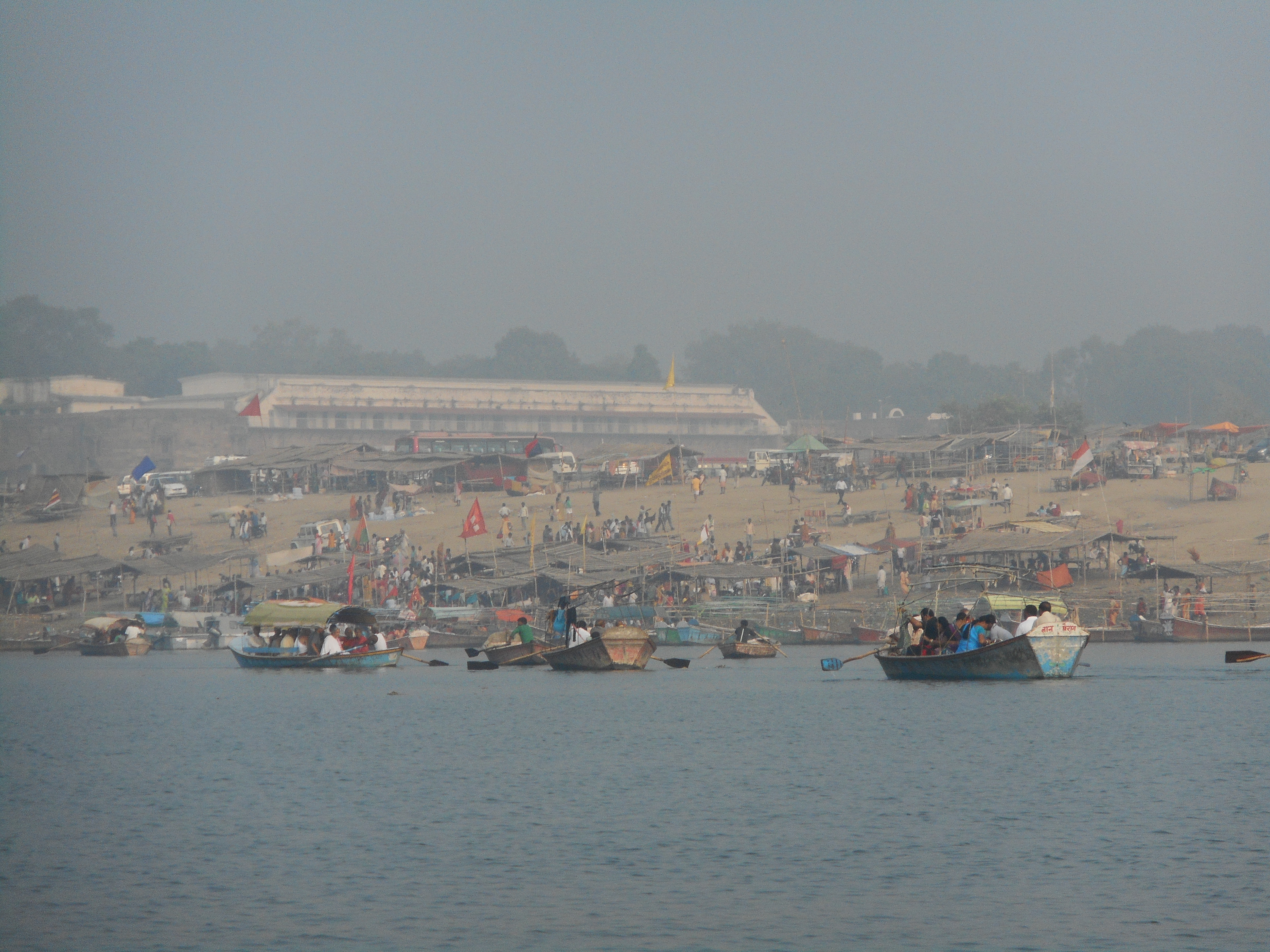 Allahabad Triveni Sangamam அலகாபாத் திரிவேணி சங்கமம்